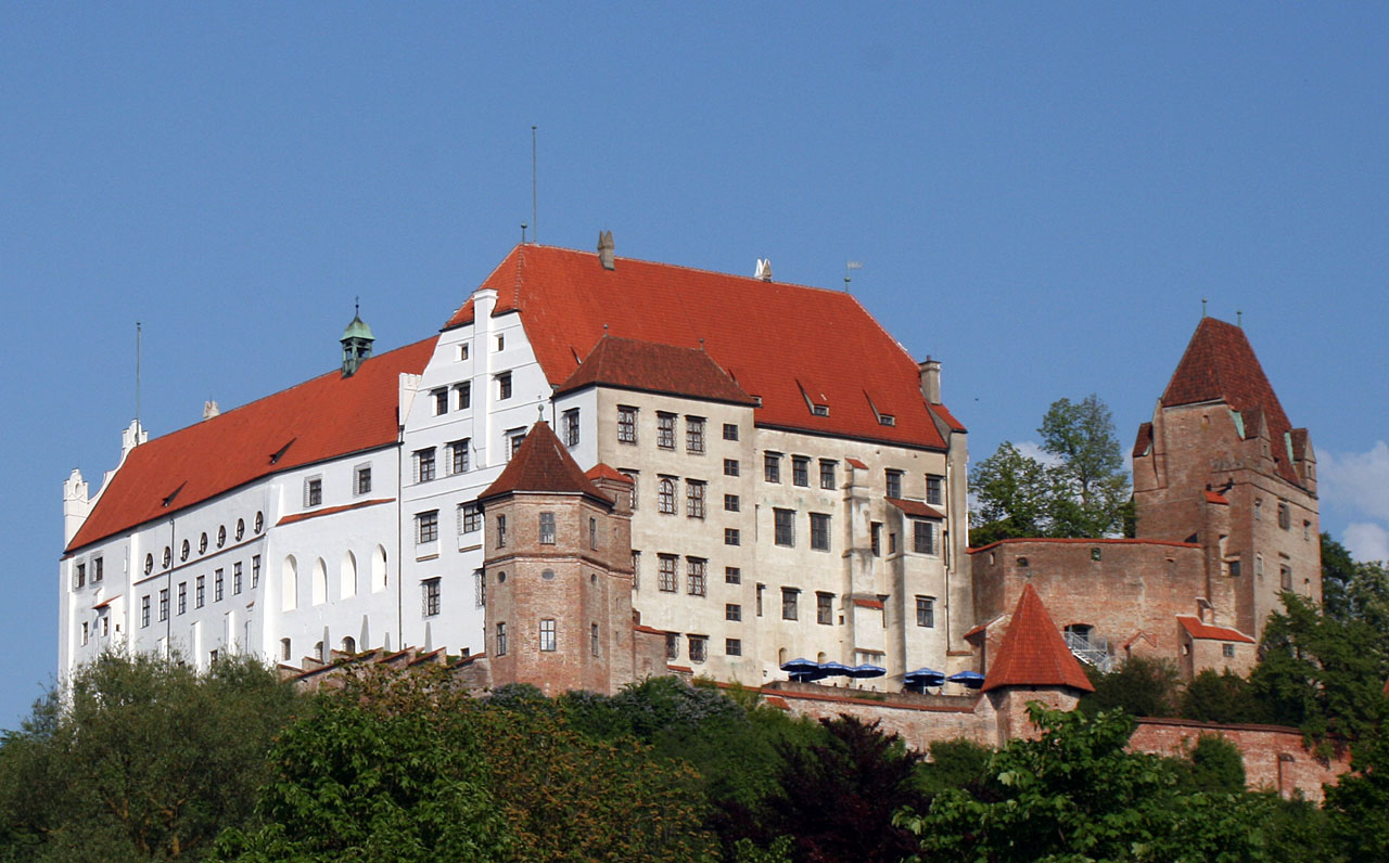 Burg Trausnitz in Landshut